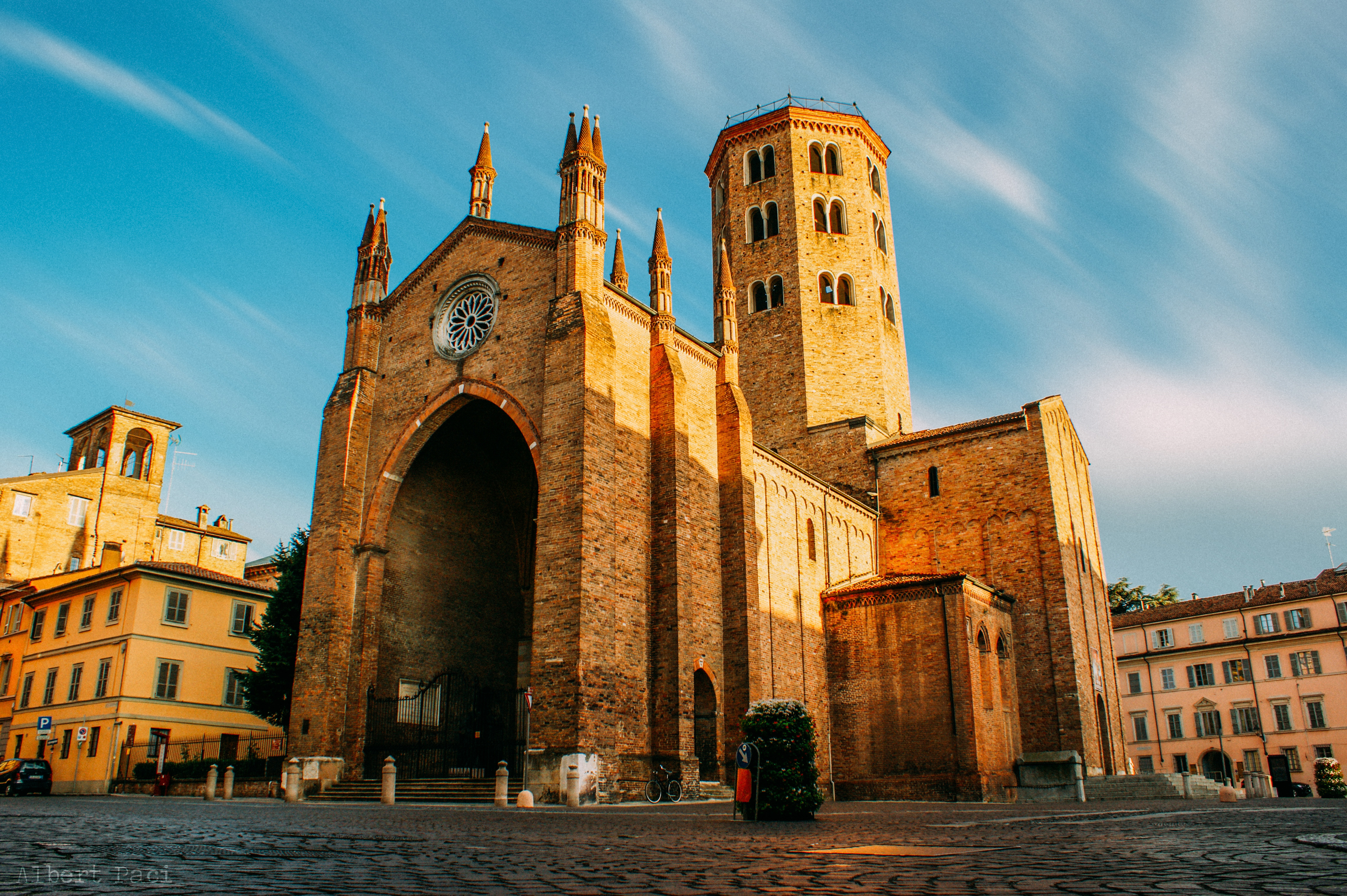 Basilica of Sant'Antonino